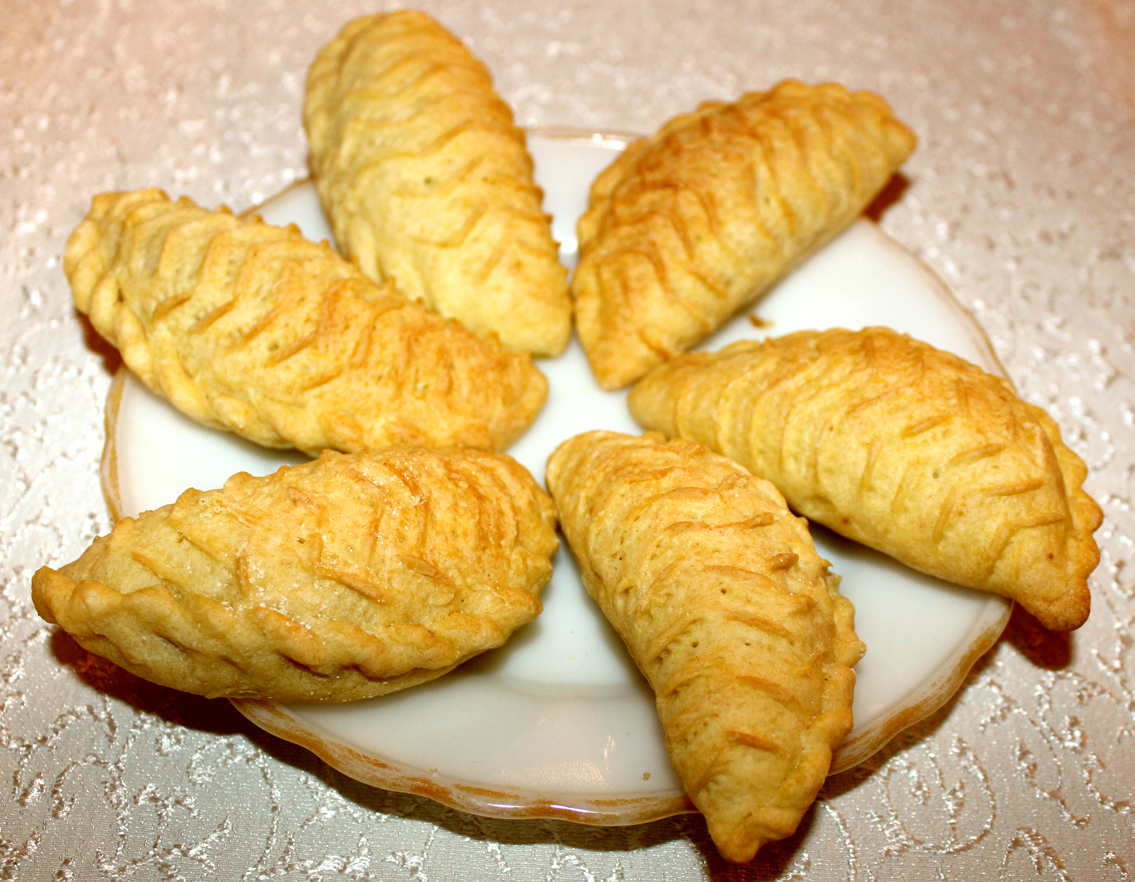 Şəkərbura